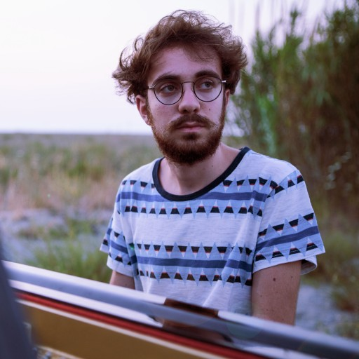 Costantino during a shooting for one of his YouTube videos.